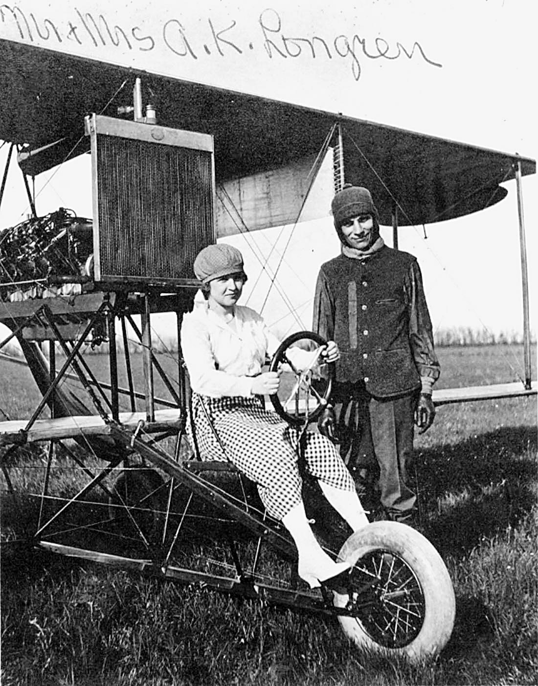 Early aviator Albin K. Longren (1882–1950) with his wife.